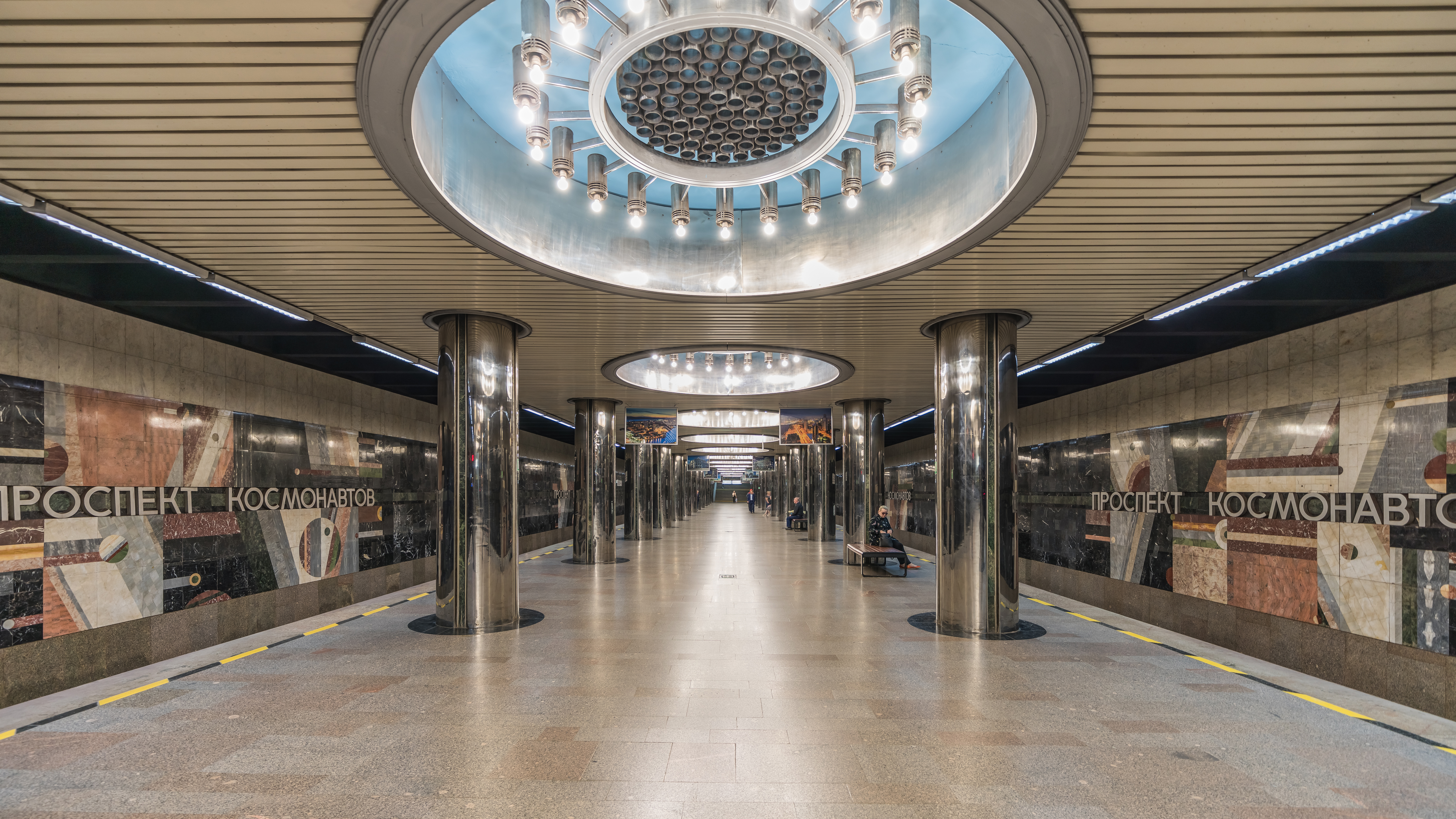 Kosmonavtov Avenue metro station in Ekaterinburg, Russia